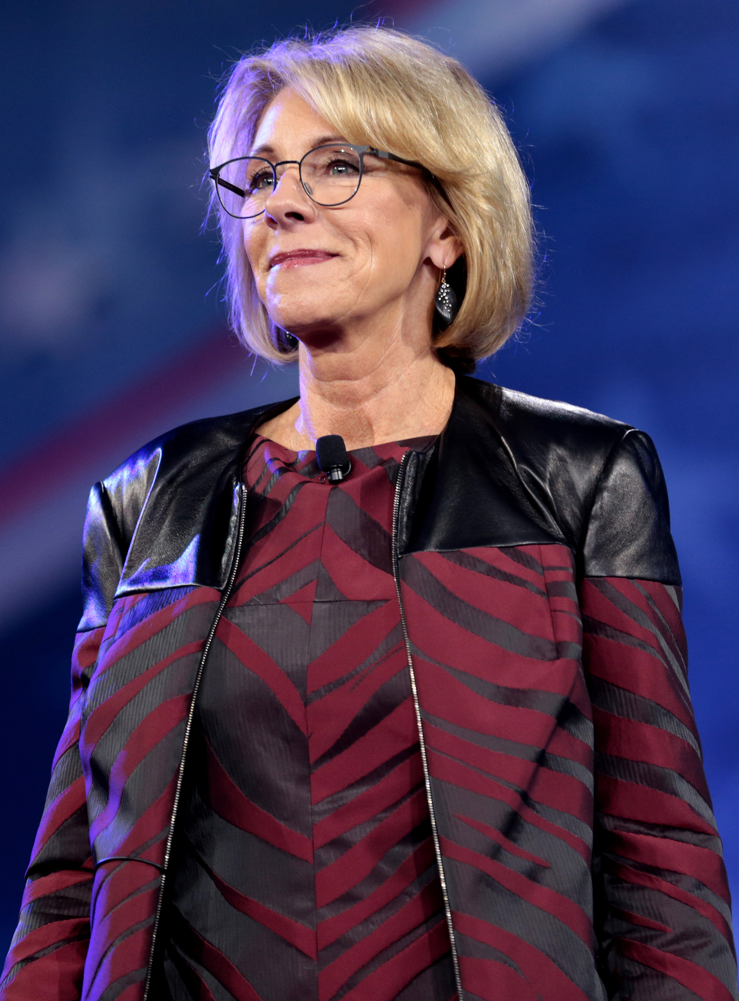 Betsy DeVos speaking at the 2017 CPAC in National Harbor, Maryland.